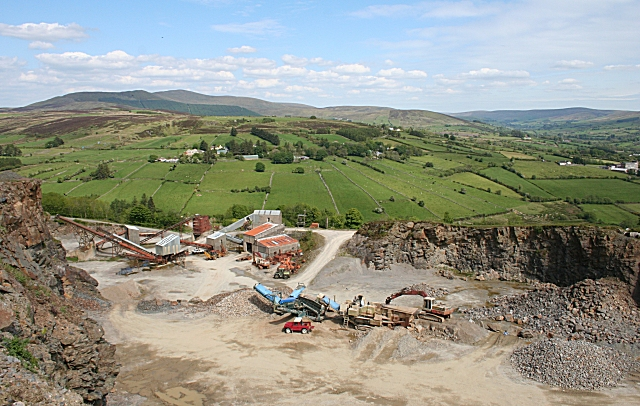 Letterbrat Quarry This quarry produces aggregate from metamorphic Dalradian rocks. In it there are examples of igneous intrusions, faulting and thrusting. The western Sperrin Mountains are in the background.